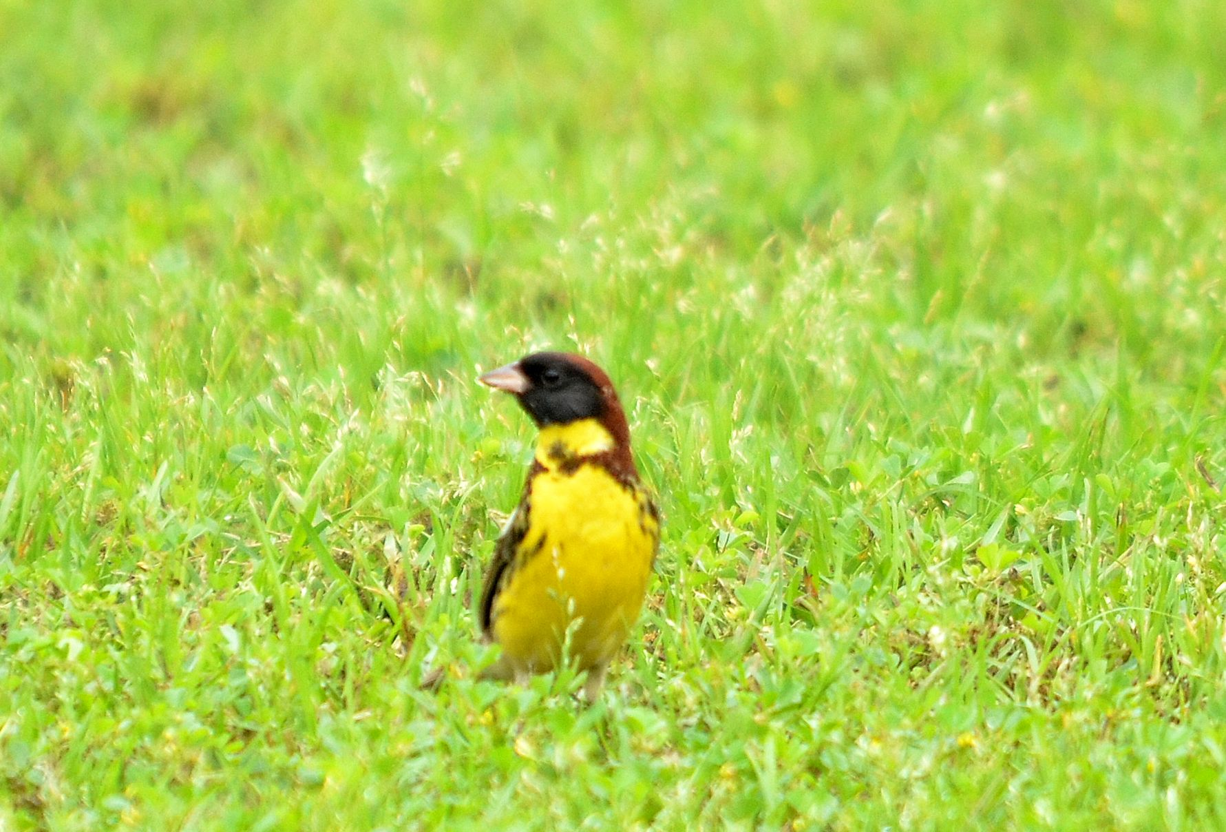 英名 Yellow-breasted Bunting 學名 Emberiza aureola adult male in breeding plumage